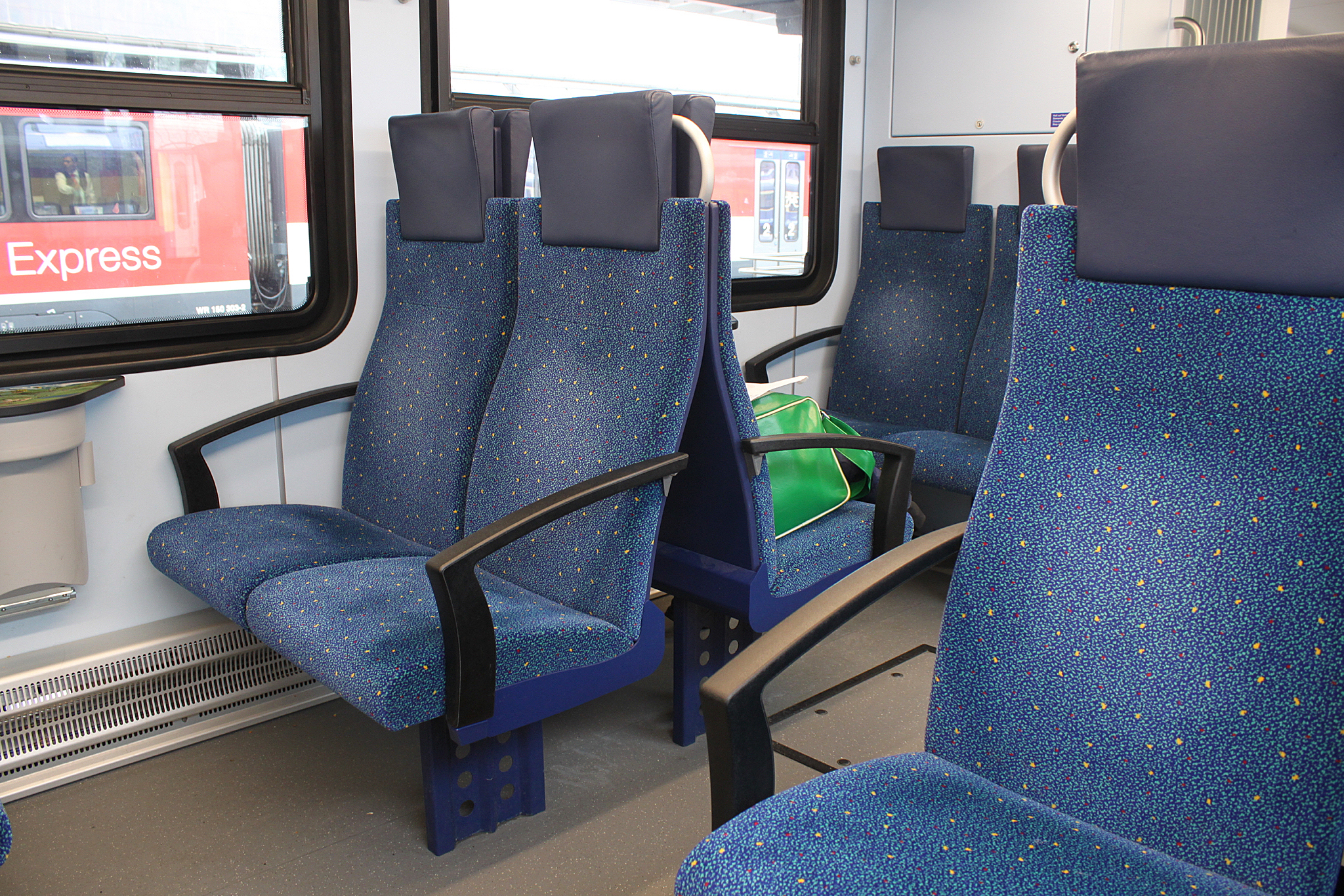 Second class compartment of BOB ABDeh 8/8 324.